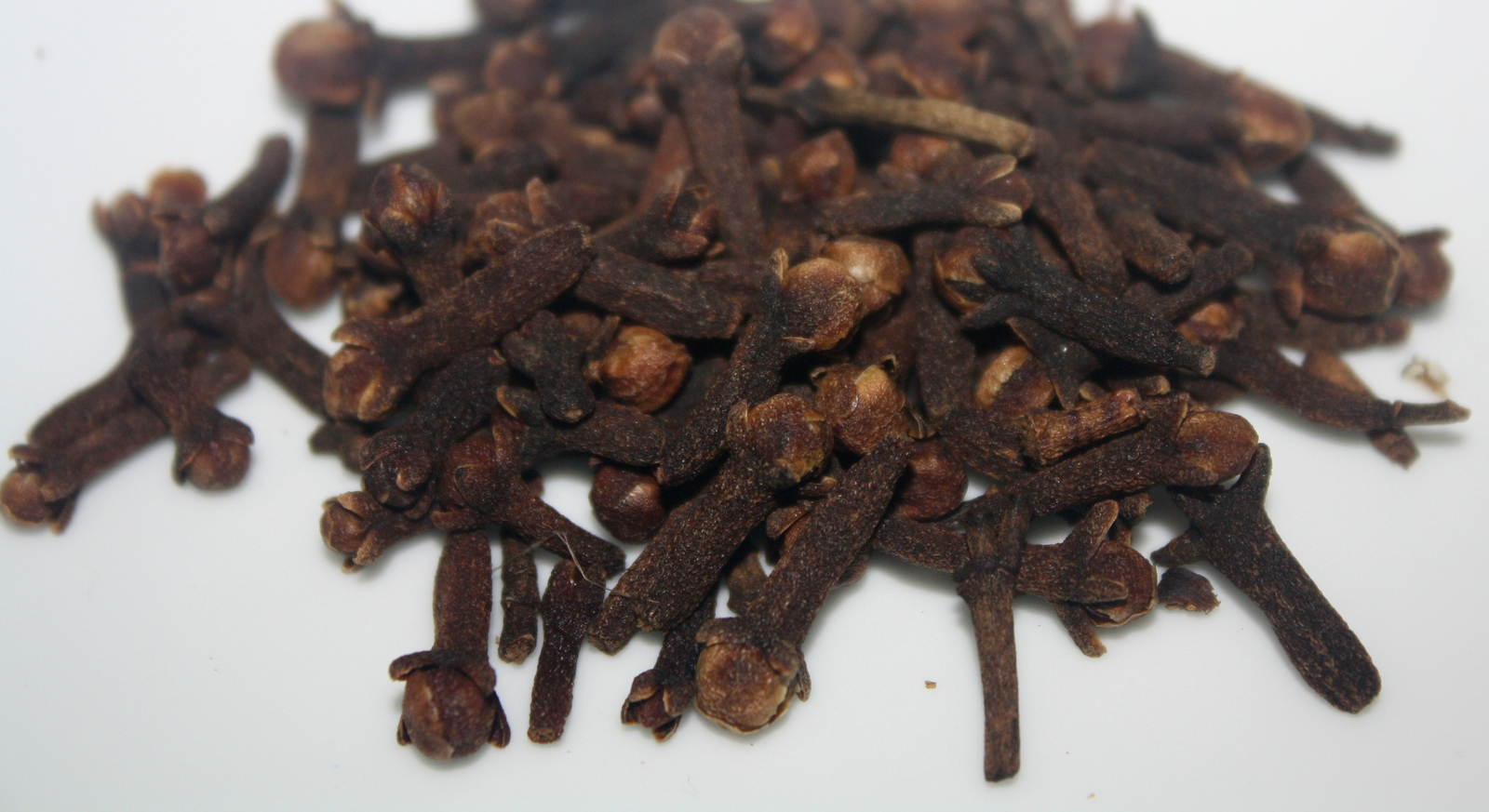 Clove (শুকনো লবংগ),Kolkata, West Bengal, India